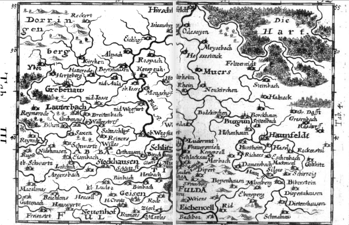 Maps by Johann Georg Jung (1583-1641) & Georg Conrad Jung (1612-1691) (made in the 17th centry)